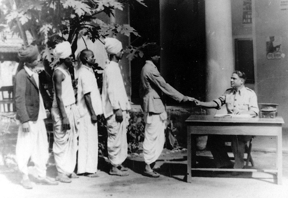 Recruits line up to enlist with the 5th Mahratta Light Infantry. An Indian recruiting officer shakes the hand of the first recruit. During the Second World War the Indian Army expanded to over two million troops, probably the largest volunteer army in history.